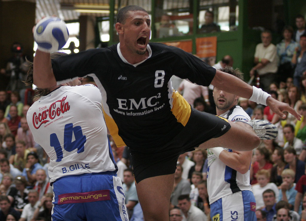 The Tunisian Handballplayer Wissem Hmam (Montpellier HB) during the Schlecker Cup 2007 in Ehingen (Germany)